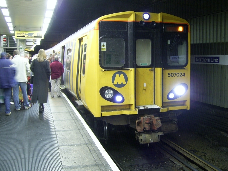 A crowd of passengers board Merseyrail unit 507024 at Liverpool Central station. The set is working a Southport - Hunts Cross service, using Central as an intermediate station.